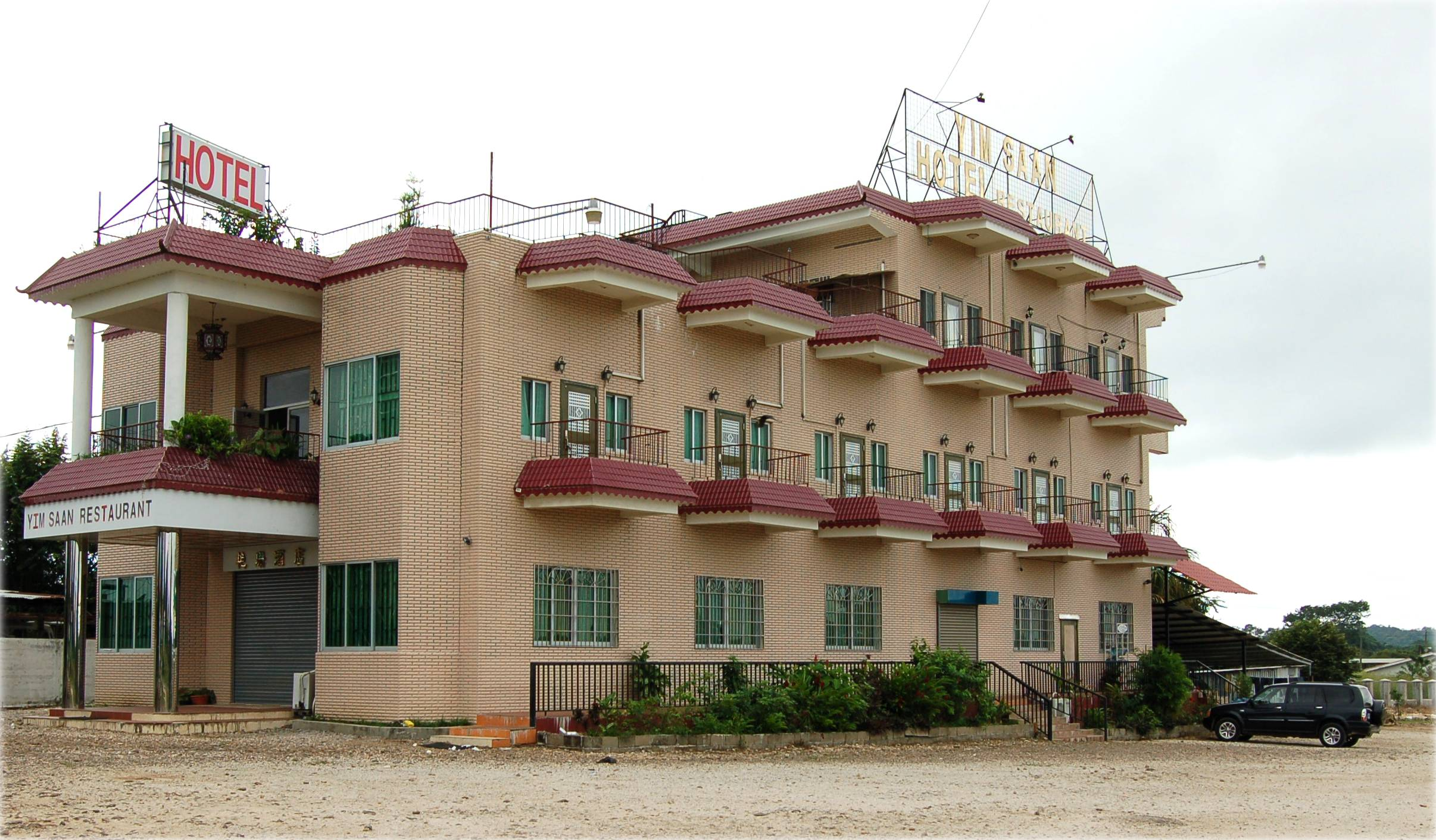 Yim Saam Hotel and Restaurant, Belmopan, Belize. A newer hotel built by emigrants from Hong Kong.